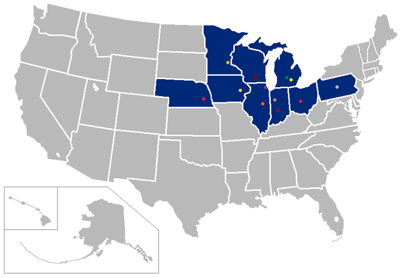 Derived from [1]; map of states with Big Ten schools